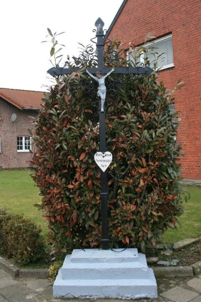 Cultural heritage monument No. 35 in Gangelt